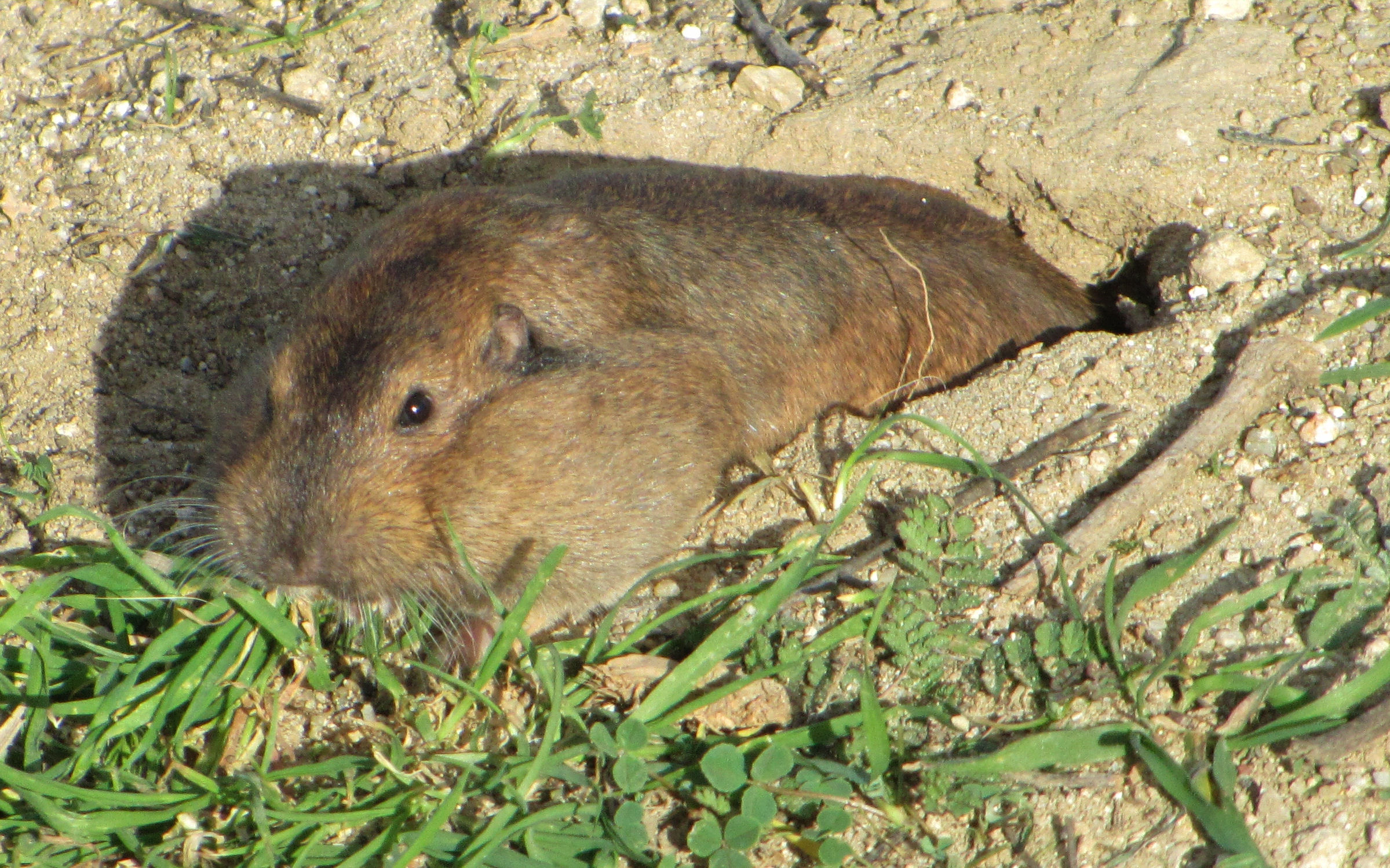 Botta's pocket gopher - Thomomys bottae location: Santiago Oaks Regional Park, Orange County, CA, USA